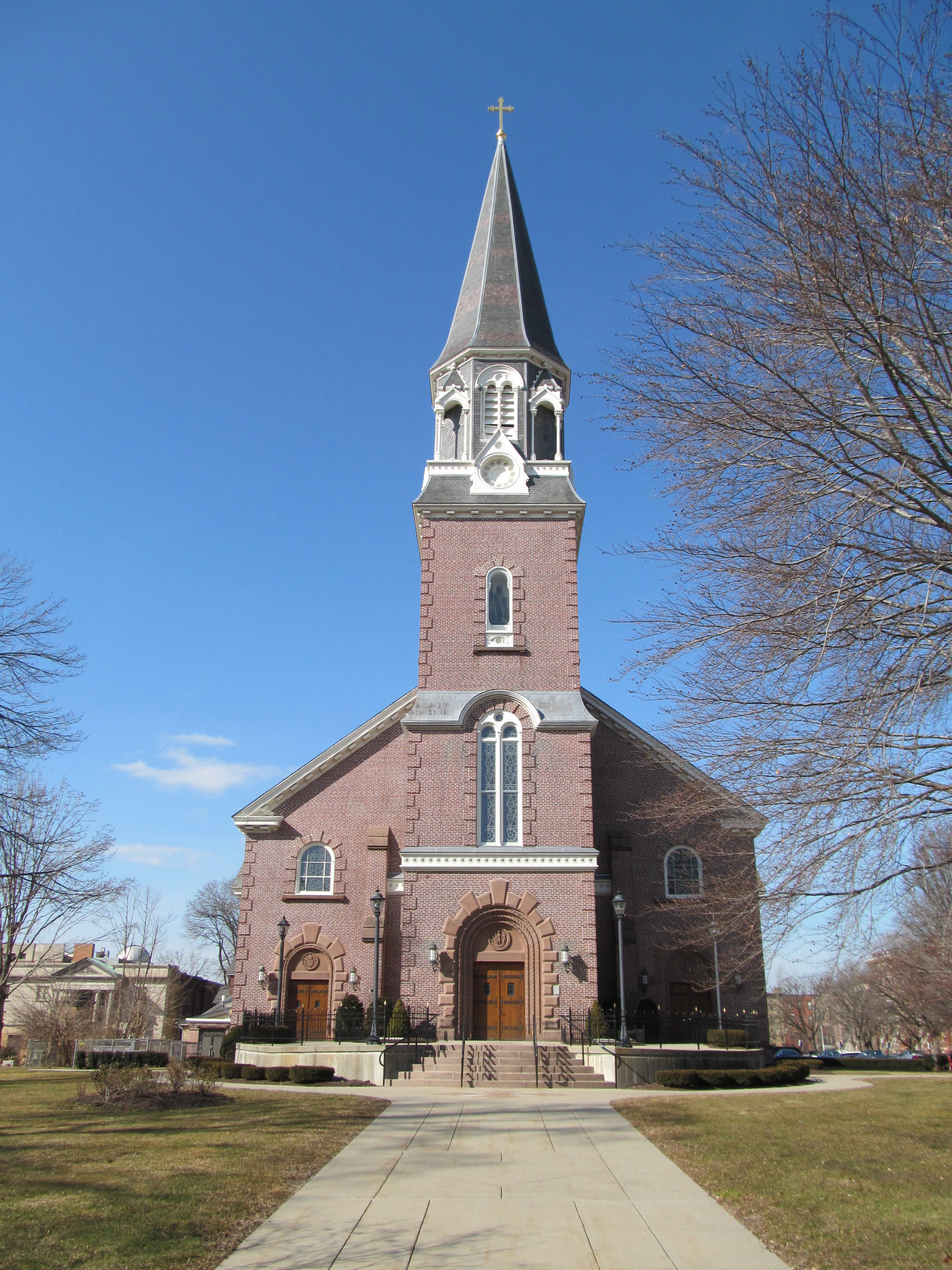 St Michael's Cathedral, Springfield Massachusetts